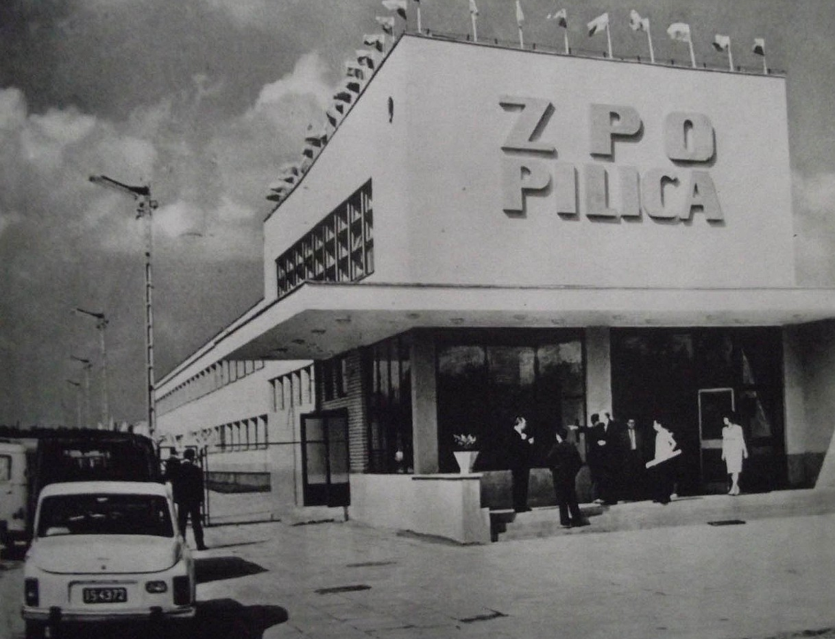 Suits Factory „Pilica (1965-1994) in Tomaszów Mazowiecki